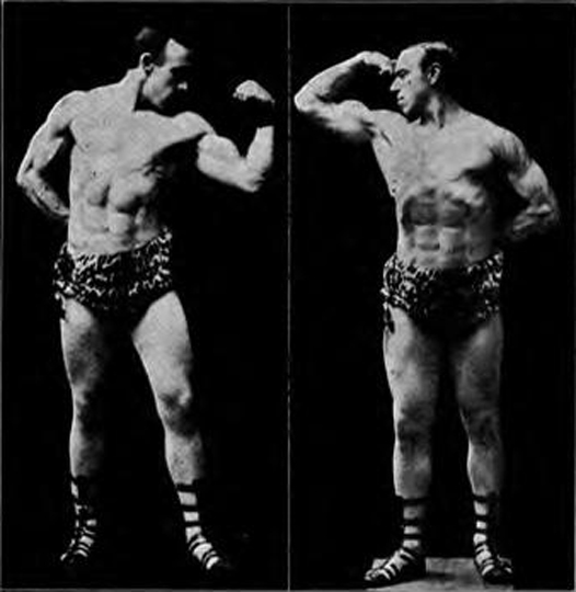 "Tensing poses by Albert Treloar."